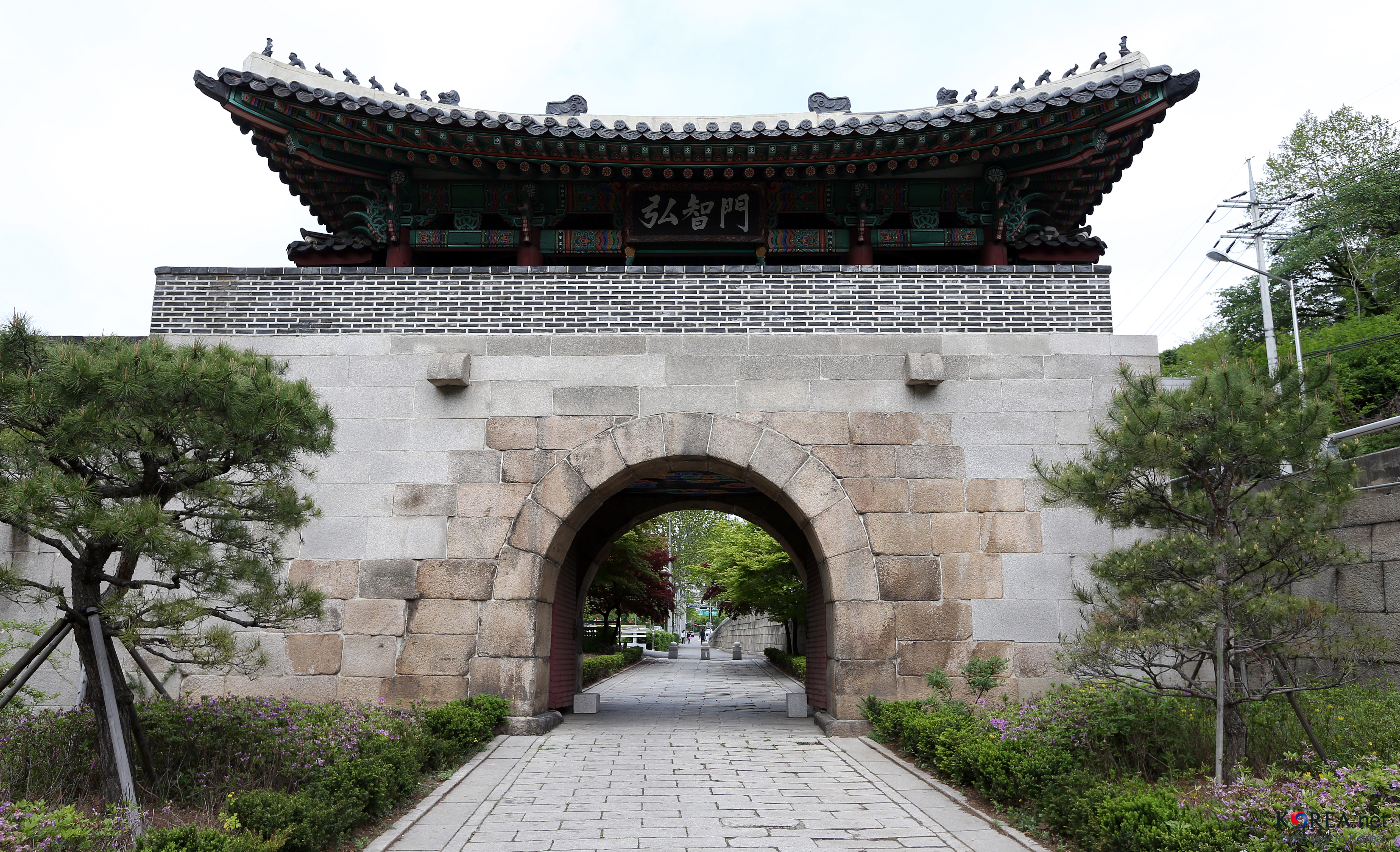 A rainy day in Seoul Hongjimun Gate and Tangchundaeseong Fortress This fortress was built in 1719 and provided a connection between Fortress Wall of Seoul and Bukhansanseong Fortress. The wall of the fortress was built to connect the two fortresses, and it corresponded with the square configuration of the ground between Fortress Wall of Seoul and Bukhansanseong Fortress. Indeed, this is a distinct characteristic of a Gwanmunseong Fortress. Hongjimun has a gate house with 3 Kan in front and 2 Kan on the side of the arch. It has a hip roop like other normal fortresses. Ogansudaemun, the water gate beside Hongjimu, used five arches as its opening for warter. 2014.04.29. Hongji-dong, Jongno-gu, Seoul Ministry of Culture, Sports and Tourism Korean Culture and Information Service ( JEON HAN 봄 비 내리는 서울 홍지문 및 탕춘대성 이 성은 1719년(숙종 45년)에 쌓은 것으로, 한양의 도성과 북한산성을 연결하여 세운 성이다. 도성과 북한산성 사이 사각지대인 지형에 맞게 두 성 사이를 이어 성벽을 만든 일종의 관문성 성격을 지녔다. 성곽 둘레는 약 4km로서, 성 안에 연무장인 영융대를 만들고 군량창고 등을 갖추었다. 성벽은 크기가 고른 정방형의 돌로 반듯하게 쌓아 숙종 때 성을 쌓는 기법을 잘 보여 준다. 홍지문은 홍예 위에 정면 3칸 측면 2칸짜리 문루를 지었는데, 대개의 성문처럼 우진각지붕이다. 그 옆으로 이어진 수문인 오간수대문은 홍예 5칸을 틀어 수구로 썼다. 홍지문은 한북문으로도 불렸다. 2014-04-29 종로구 홍지동 문화체육관광부 해외문화홍보원 코리아넷 전한